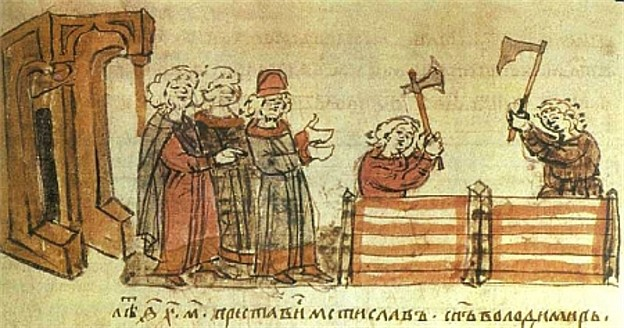 Grand Prince Mstyslav I Volodymyrovych builds the Pyrohoshcha Church of the Mother of God in Kyiv.